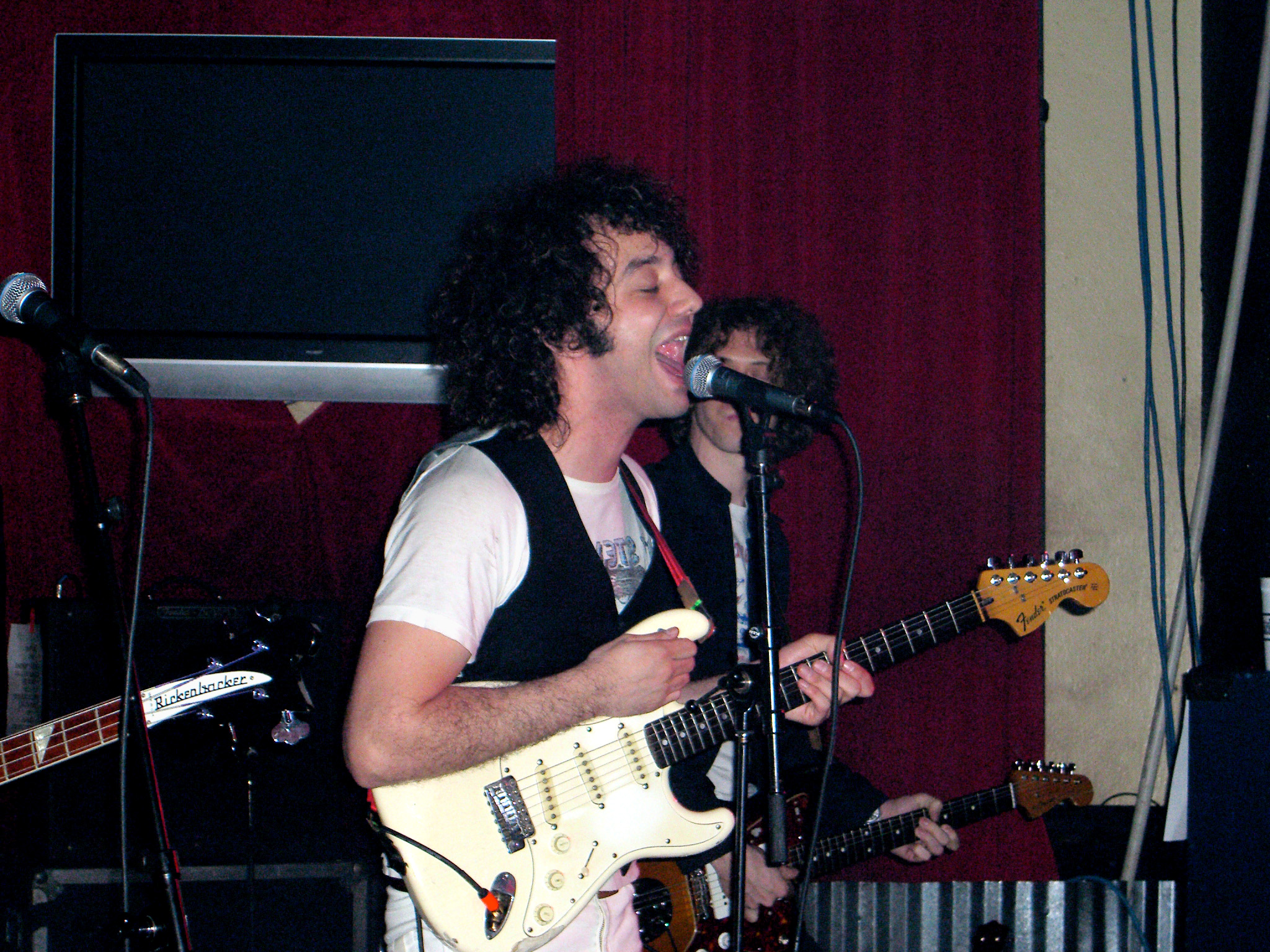 He was really strong as the frontman. Julian Casablancas is not needed.